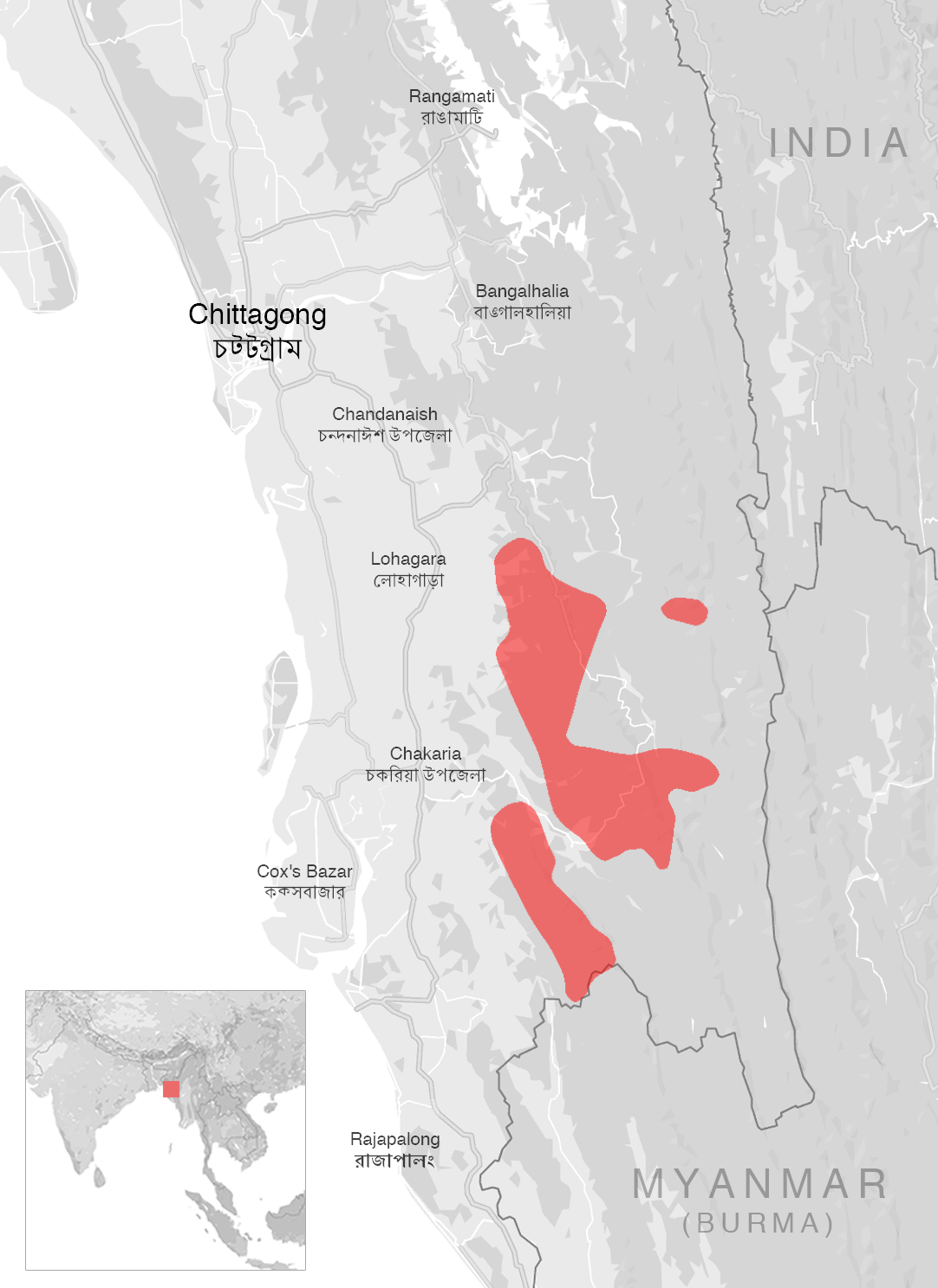 Distribution of Mro (Mru) people of Bangladesh, India, and Burma. Based on data from "Mru: Hill People on the Border of Bangladesh" by Claus-Dieter Brauns and Lorenz G. Löffler (1990)